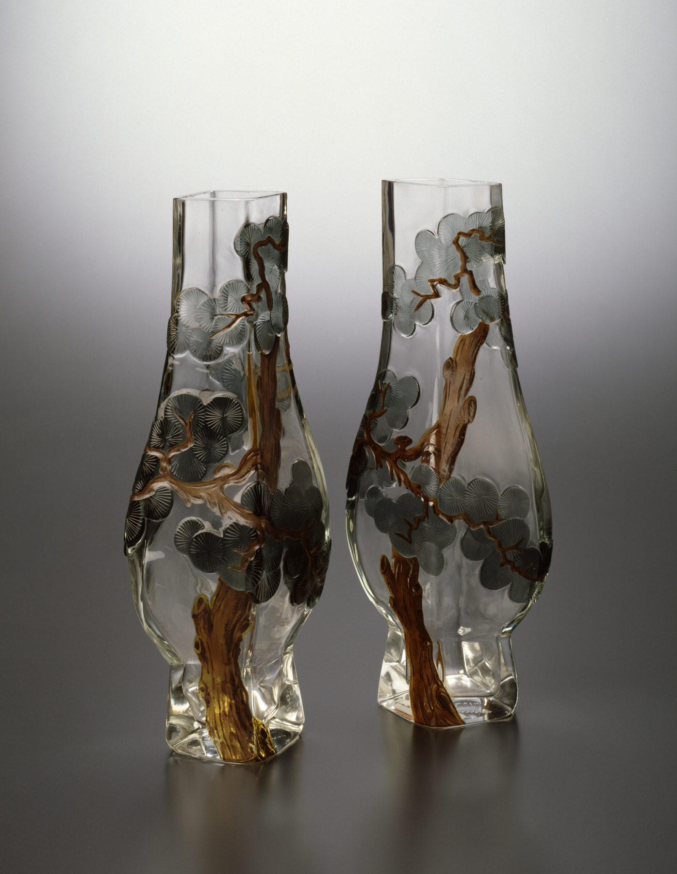 Here, Rousseau has adopted the cameo technique found in 18th-century Chinese glass. The Japanese-inspired pine tree designs have been created by cutting away portions of the surface of the glass to reveal the different colors within.